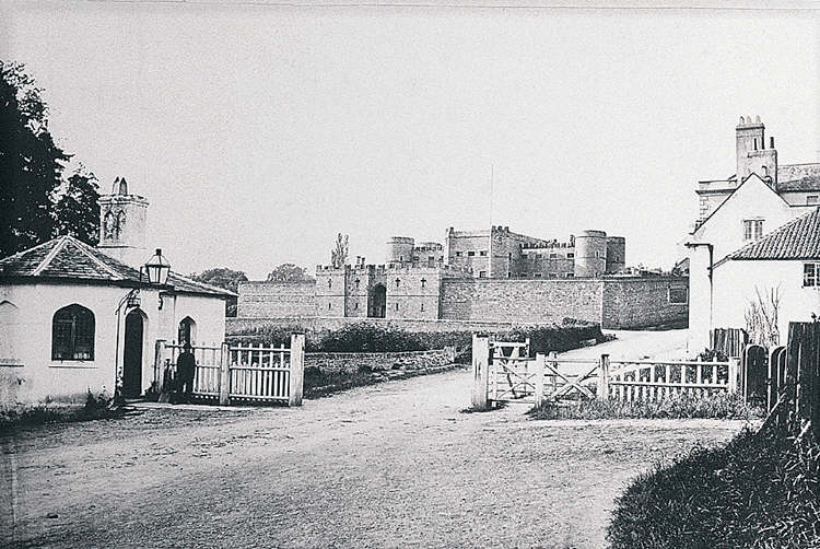 Line drawing of Monmouth County Gaol, Monmouth, as it appeared prior to 1865